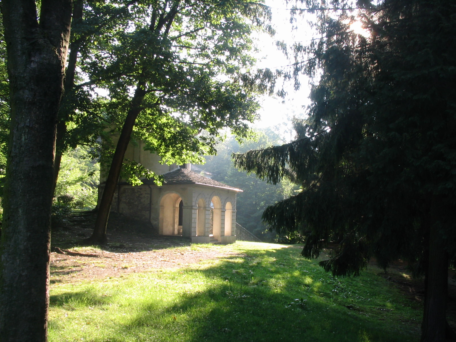 The Sacro Monte of Orta (Novara, Italy) View of a chapel Author of the photo = M. Gabriele Derived by it.wikipedia